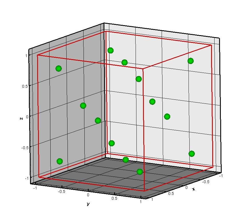 Numerical intergation on brick domain, 14 points formula